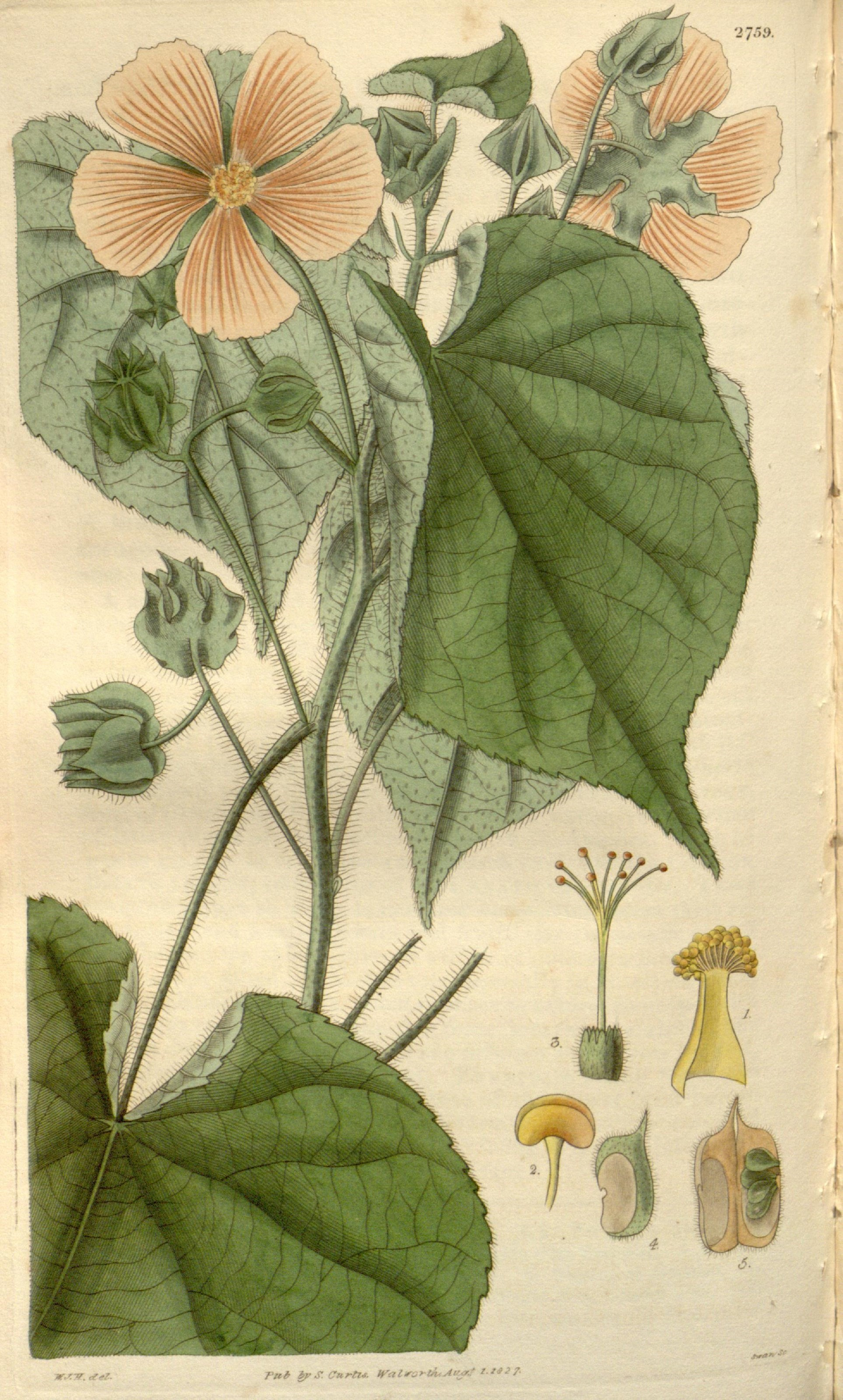 Tub if s-- tjmrtu. Wal*